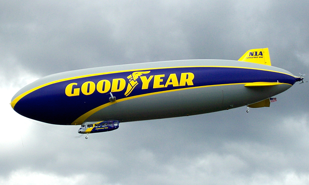 Wingfoot One (N1A), a semi-rigid airship owned and operated by the Goodyear Tire and Rubber Company, flies over Suffield Township, Ohio.